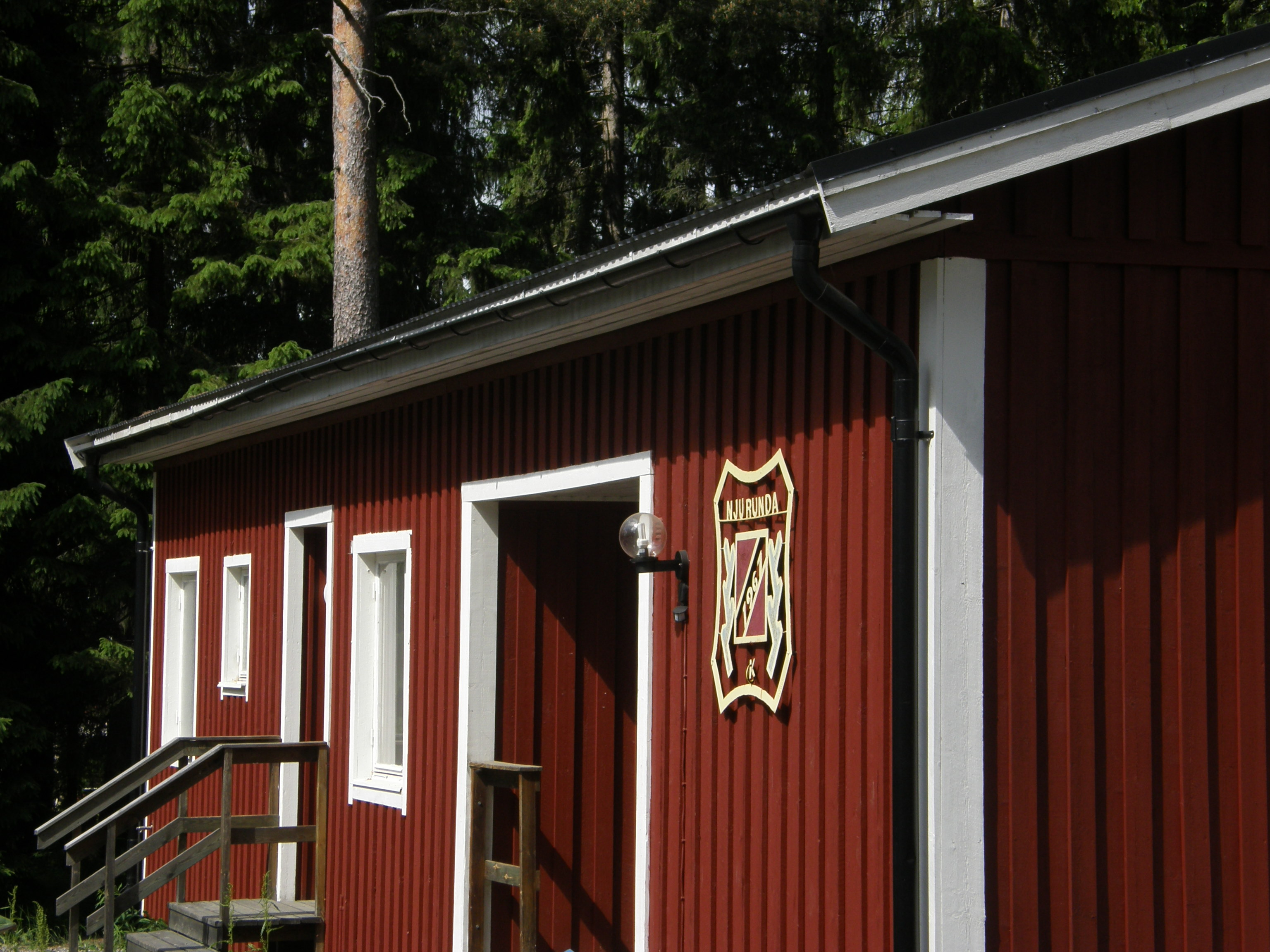 The clubhouse of Njurunda OK